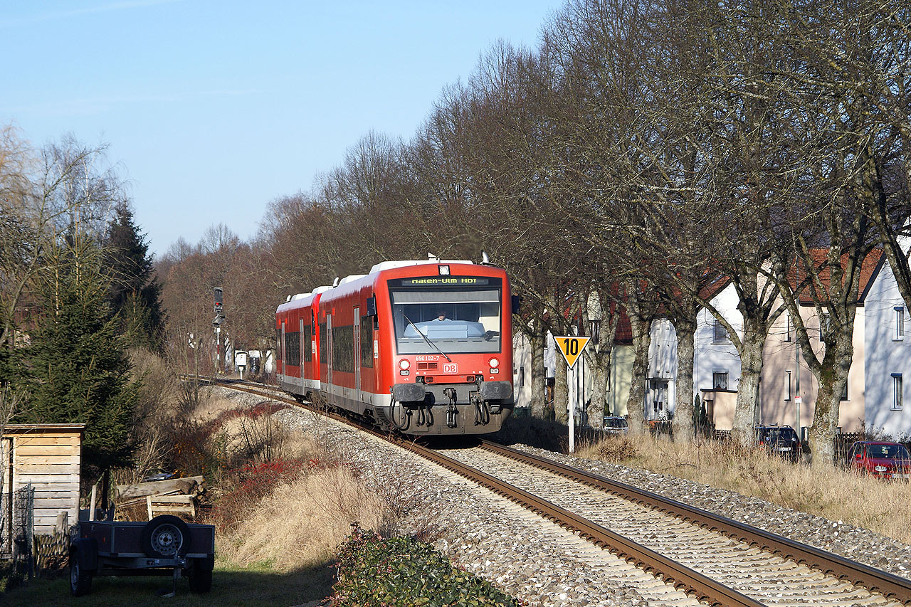 Typical Stadler Regio-Express RS1 rake on the Brenzbahn formed by 650 102 and a second 650 as the Regionalexpress to Ulm Hbf on 15.1.2007 at southern entry signal at Schnaitheim.